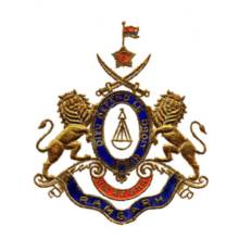 The coat of arms of the Ramgarh Rak